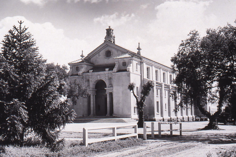 A view of the north end of the Mabel Shaw Bridges Hall of Music at Pomona College in 1916, shortly after its completion the year before.